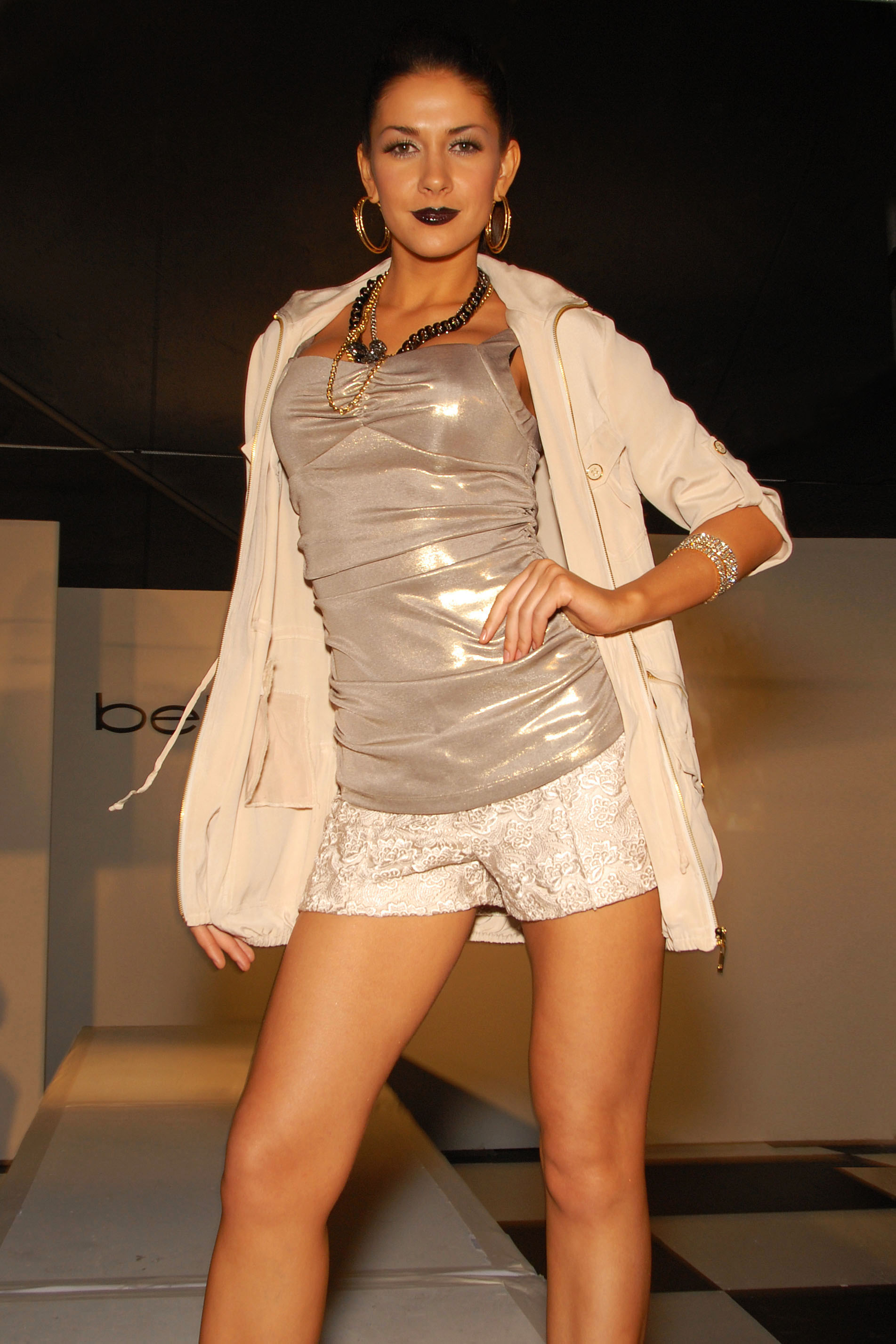 Bebe Hot Pants modeled by Larysa Poznyak - Photo by Glenn Francis of